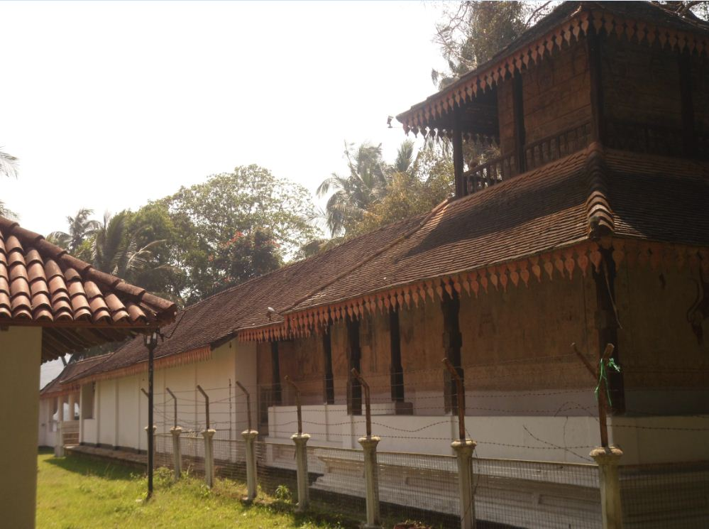 Badulla Kataragama devale